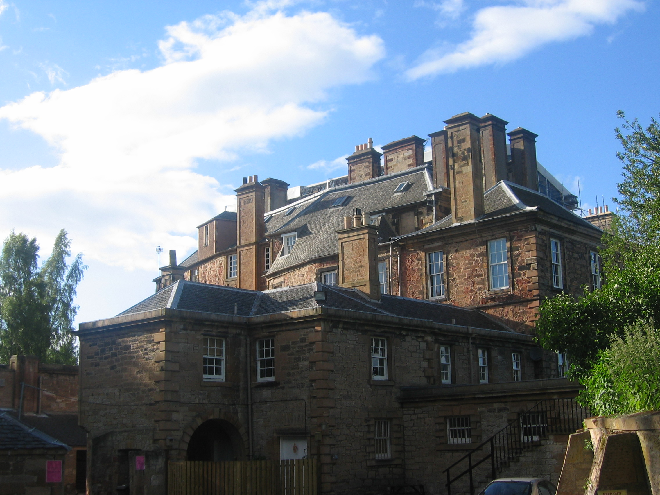 Dalkeith House, Midlothian, Scotland